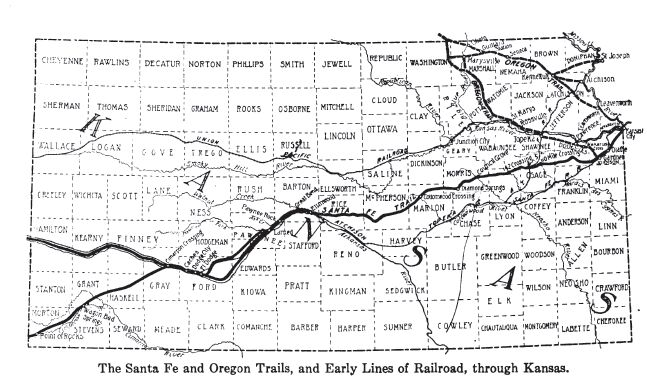 Map of Kansas showing trails and early railroads A history of Kansas by Anna Estelle Arnold published by State of Kansas, State Printing Plant, 1914 p 28 PD (1914 book--pre 1923)